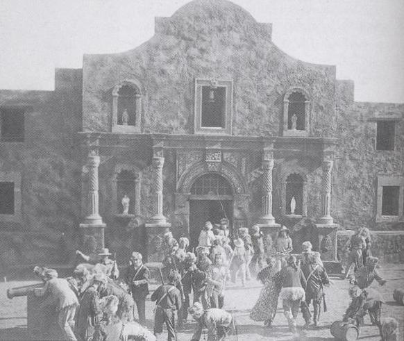 This is a scene from the movie The Martyrs of the Alamo or the Birth of Texas, released in 1915. The movie was supervised by D.W. Griffith. This still was reprinted in Frank Thompson's 2005 The Alamo, p 110.